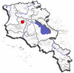 Location map for Aparan, Armenia.